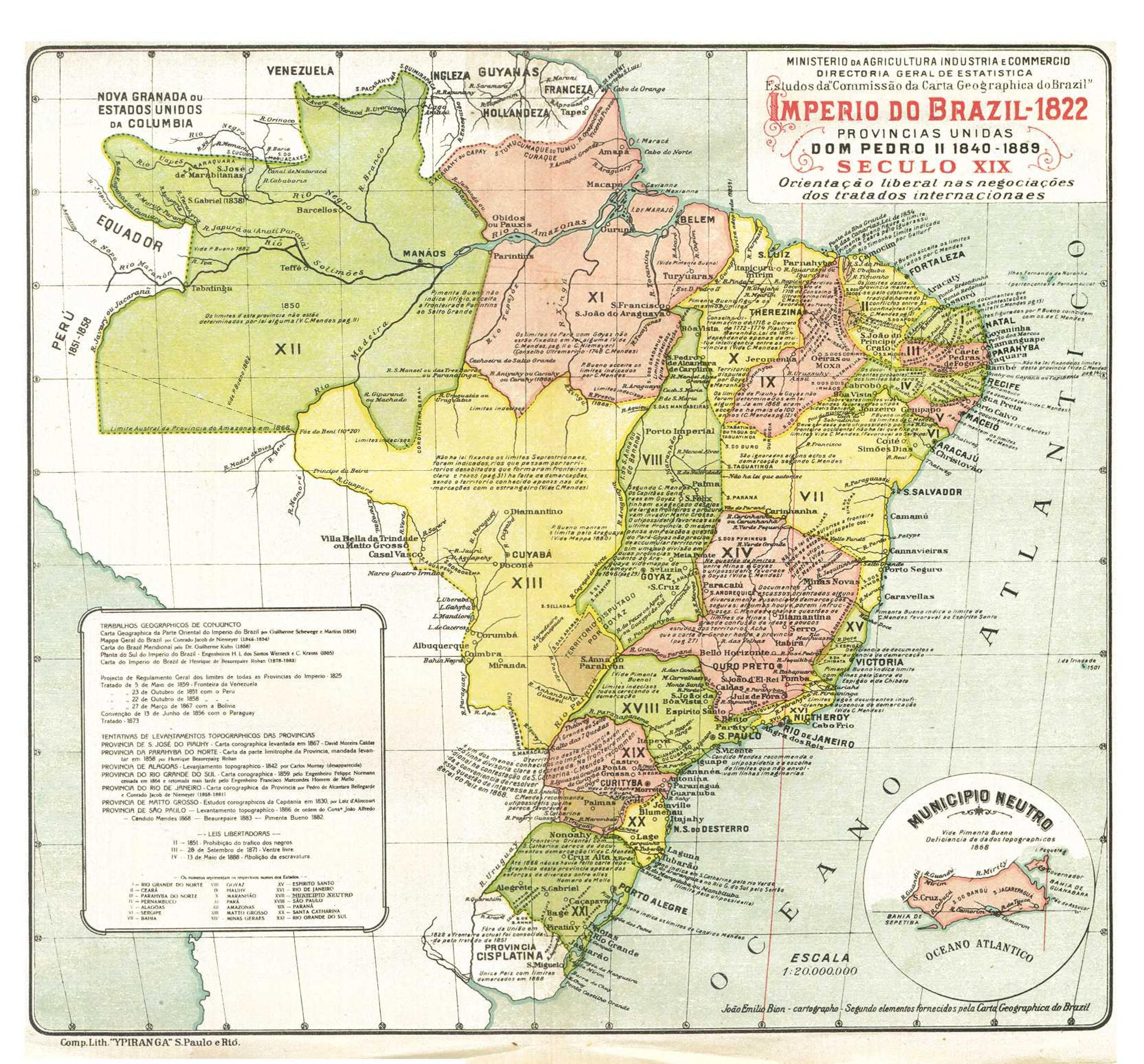 Empire of Brazil, 1822.